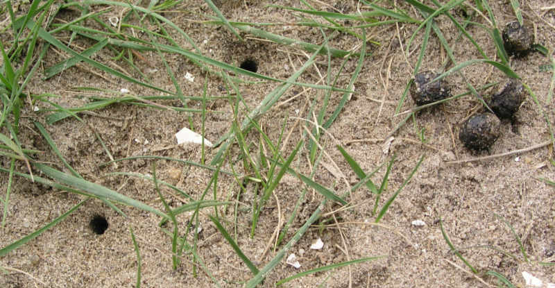 Holes (presumed to be) from larvae of Cicindela Hybrida with a few rabbit droppings. 5 V 2005 NL: Flevoland, Roggebotzand. Photo E van Herk free under GNU FDL. Camera: Olympus C-5050 Zoom.